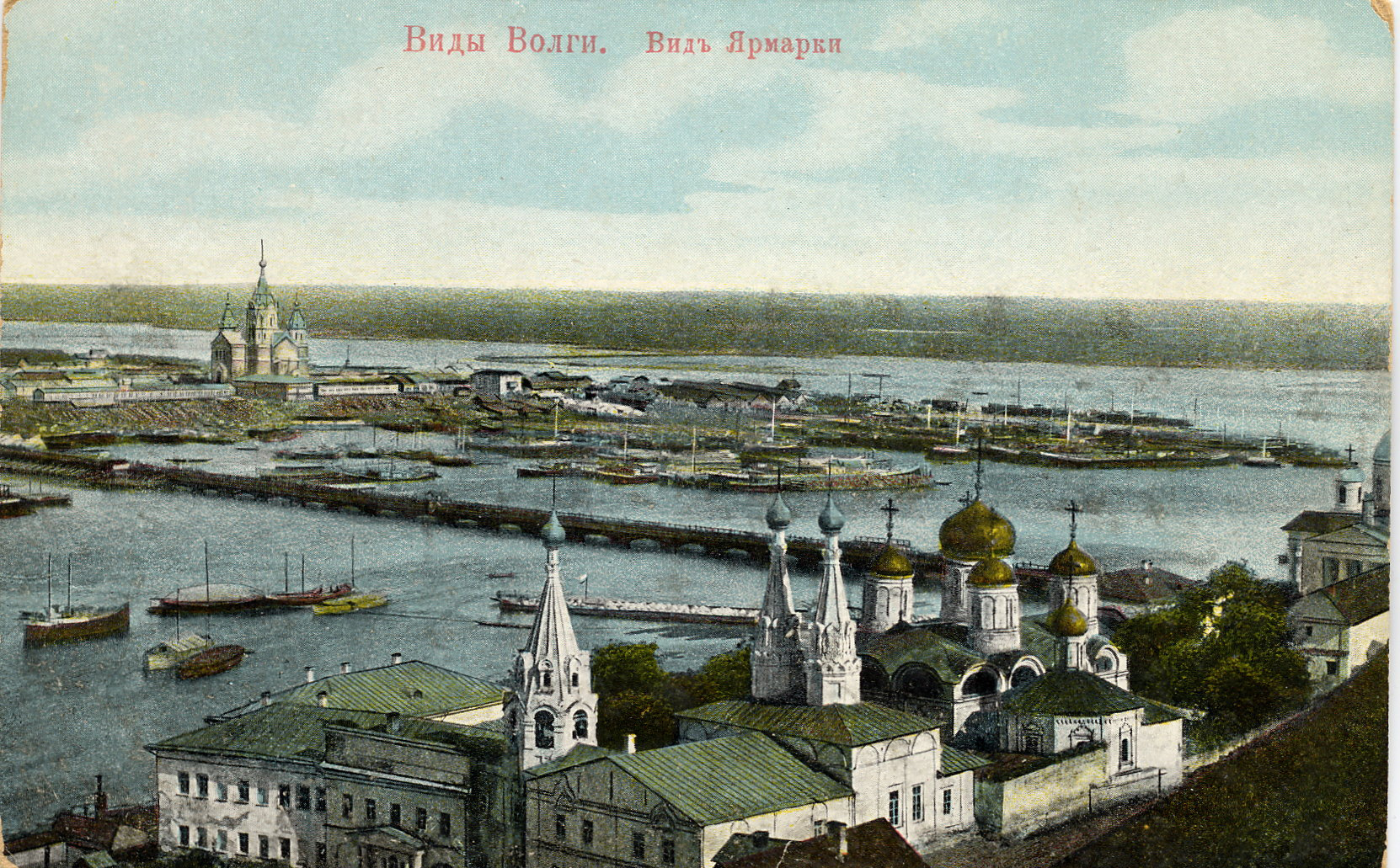 General view of Blagoveschenskaya (Annunciation) sloboda of Nizhny Novgorod, the fairground and Alexander Nevsky Cathedral on the Spit